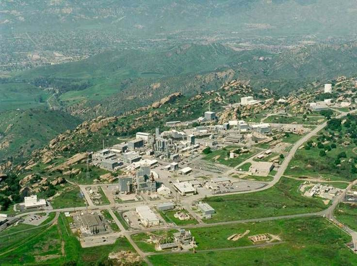 Aerial photograph of Area IV (4) of the Santa Susana Field Laboratory, in the Simi Hills, Ventura County, Southern California. Superfund site: from former nuclear research, reactors, and processing facilities; and resulting nuclear and chemical soil and groundwater contamination. Simi Valley seen to northwest in backround.